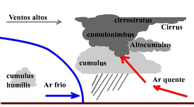 Nuvens nas frentes frias - Cold front clouds